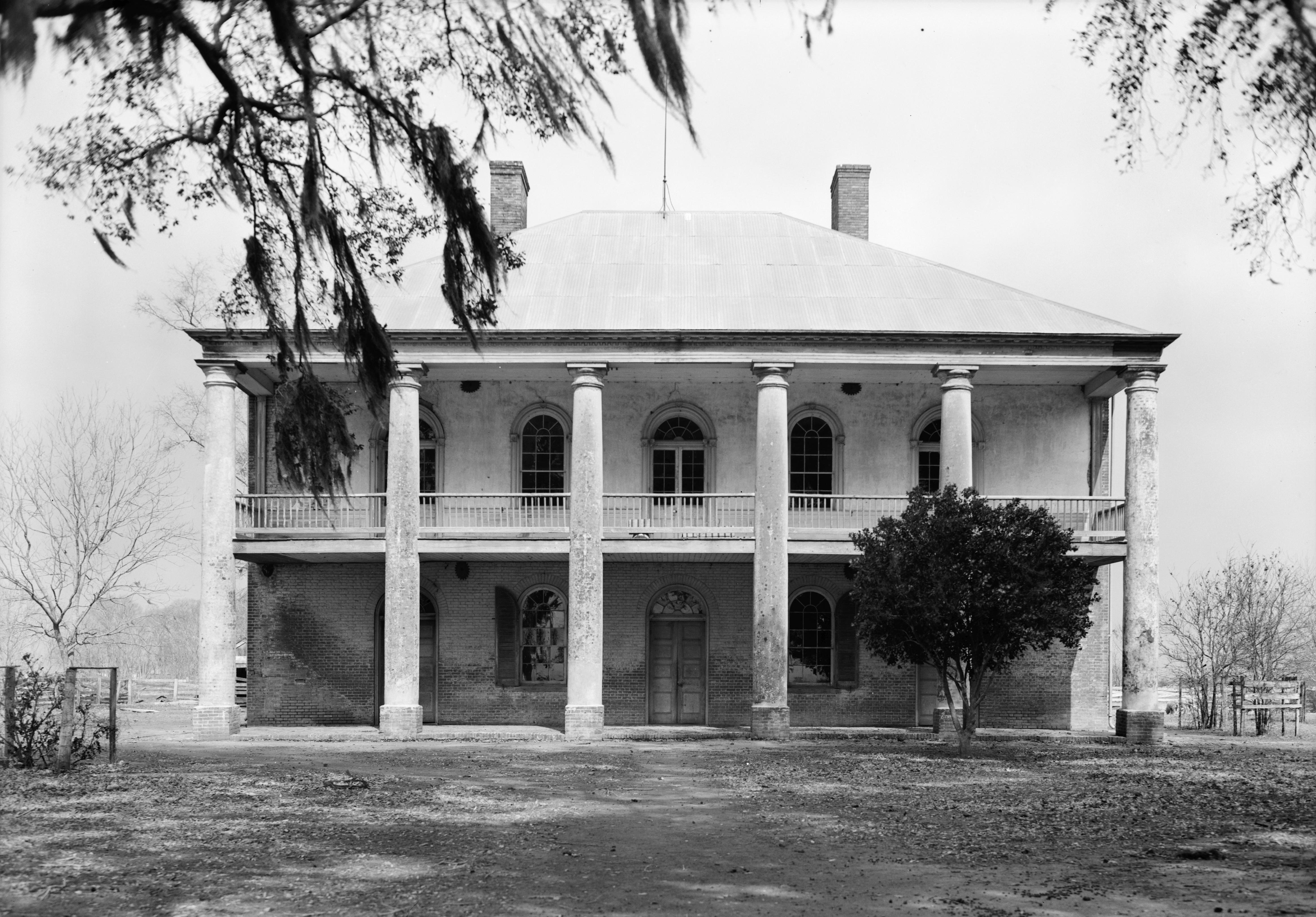 Front of the Chretien Point Plantation House, located on Blue Spring Road southwest of Sunset in St. Landry Parish, Louisiana, United States. Built in 1831, it is listed on the National Register of Historic Places.